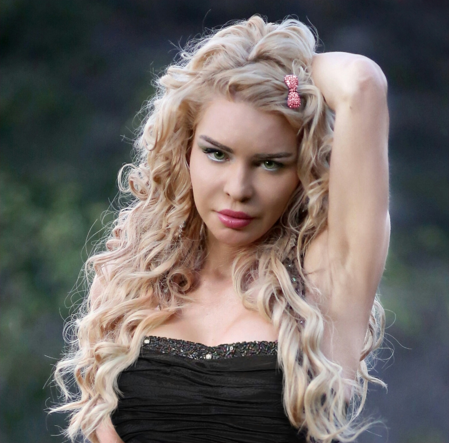 Maria Ford publicity photo